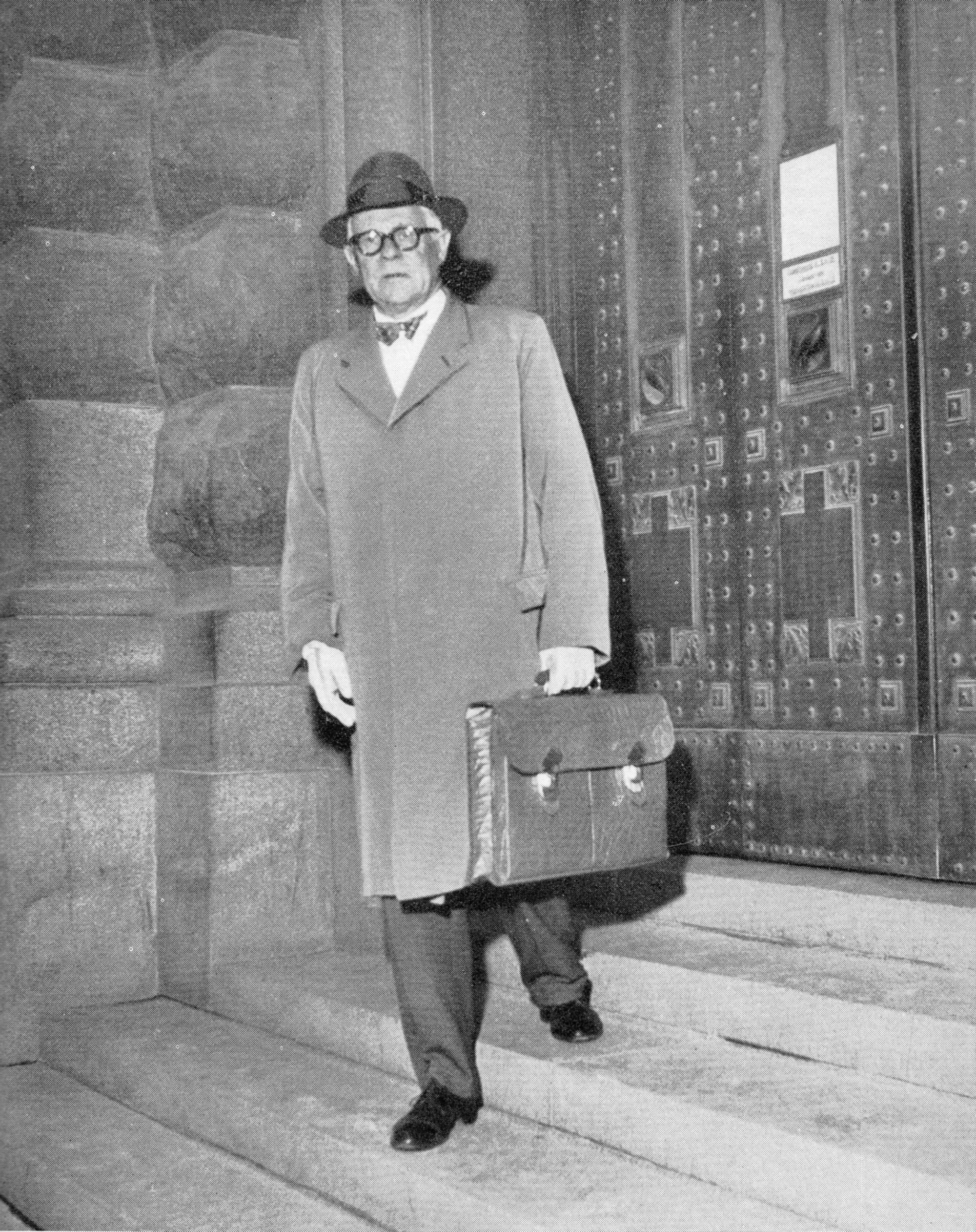 Swedish Commissioner Alvar Zetterquist (1895-1959) on the stairs of Sveriges Riksbank January 30, 1945